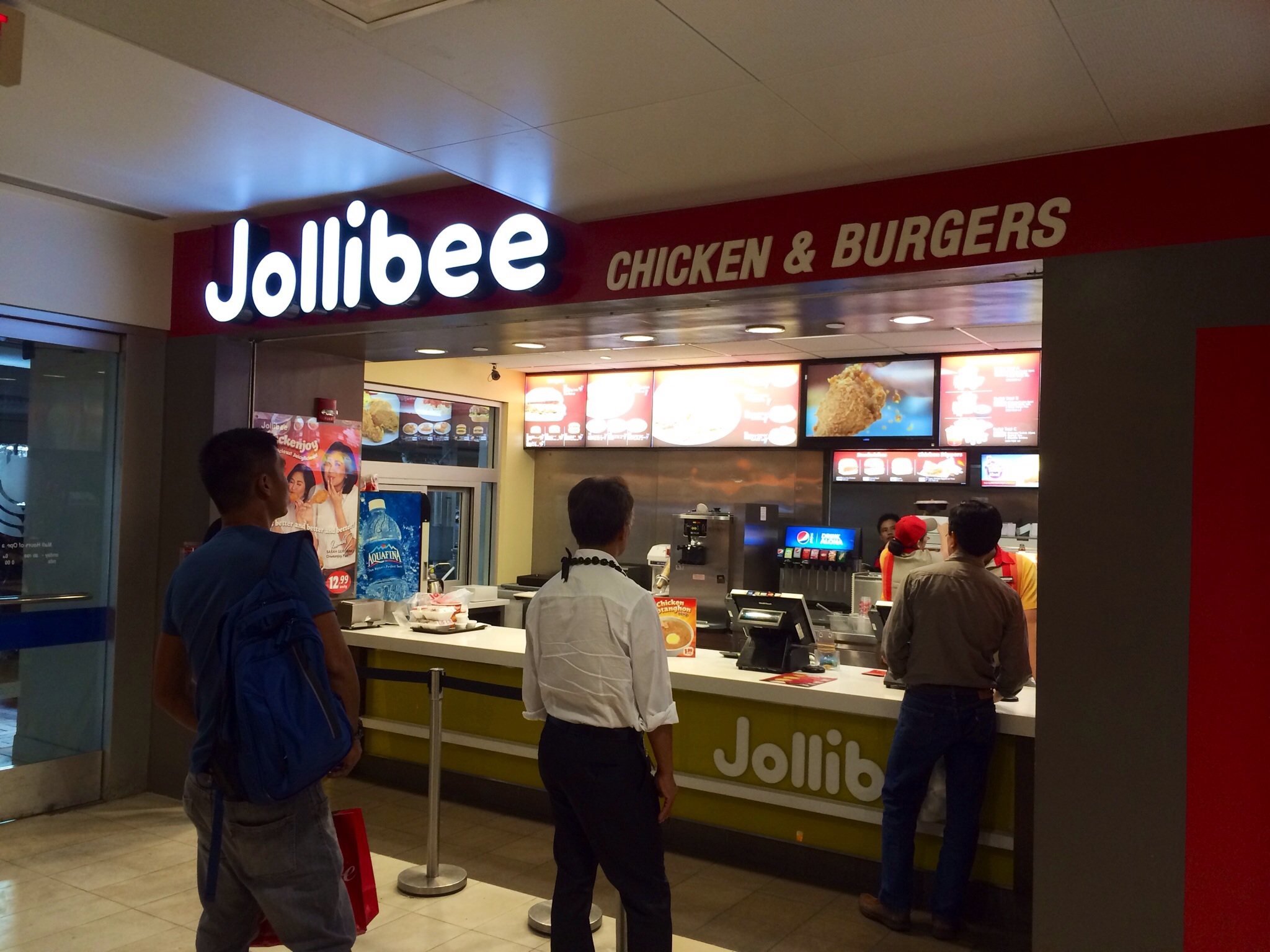 A Jollibee restaurant at the Makai Food Court of the Ala Moana Center in Honolulu, Hawaii in the United States.